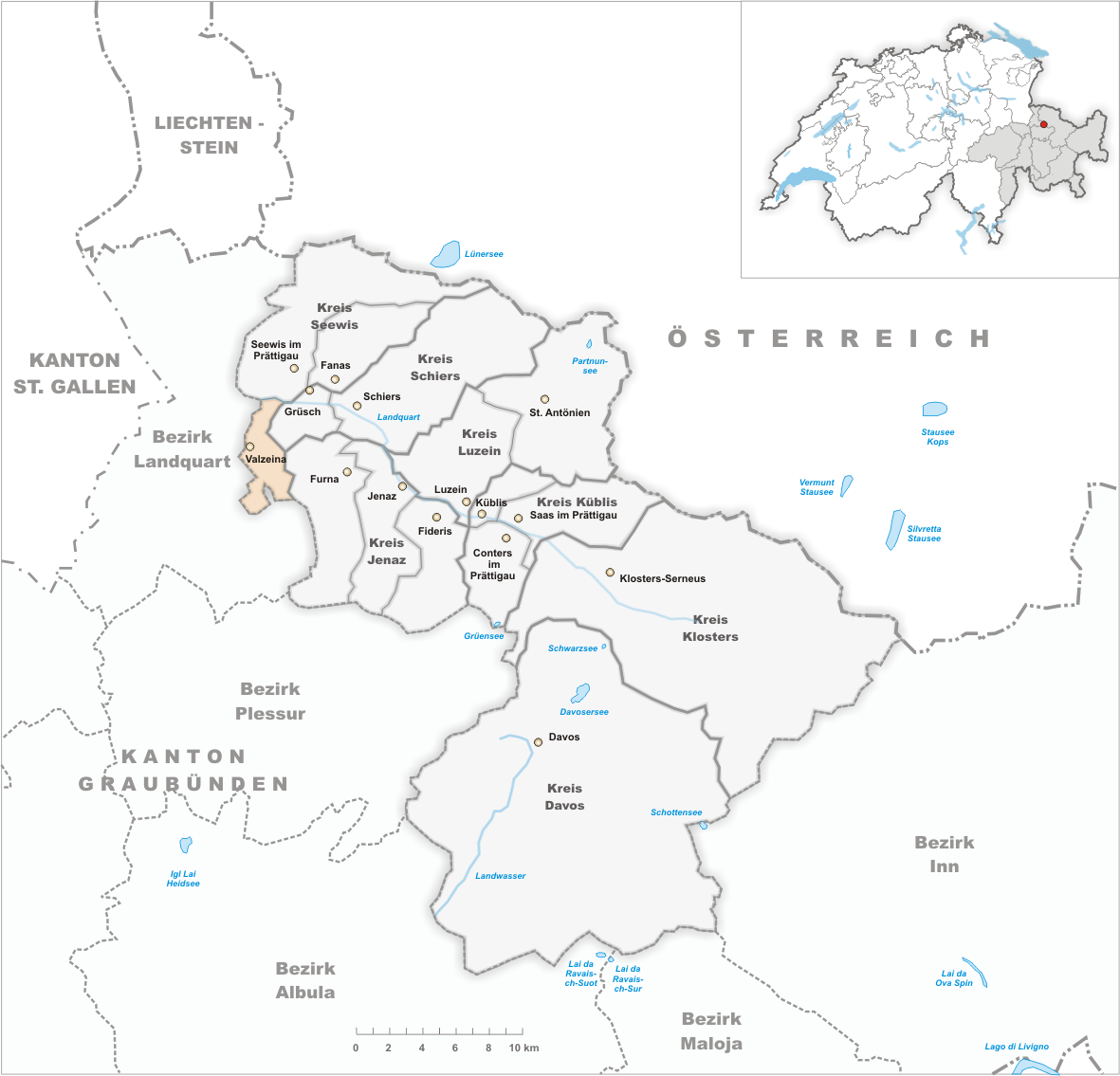 Municipality Valzeina